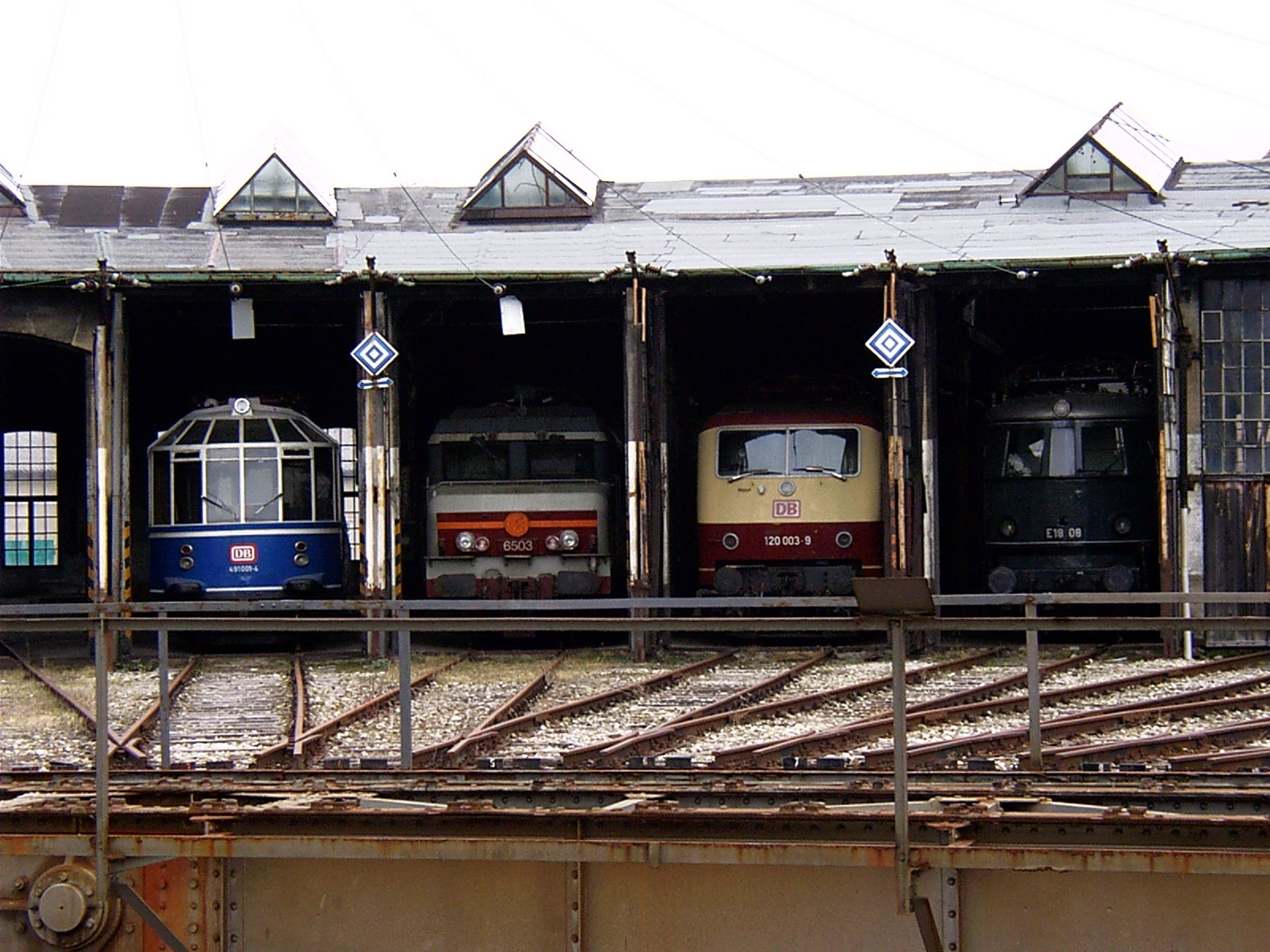 A parade of locomotives in the Europa Roundhouse at the Augsburg Railway Park, Bavaria, Germany.